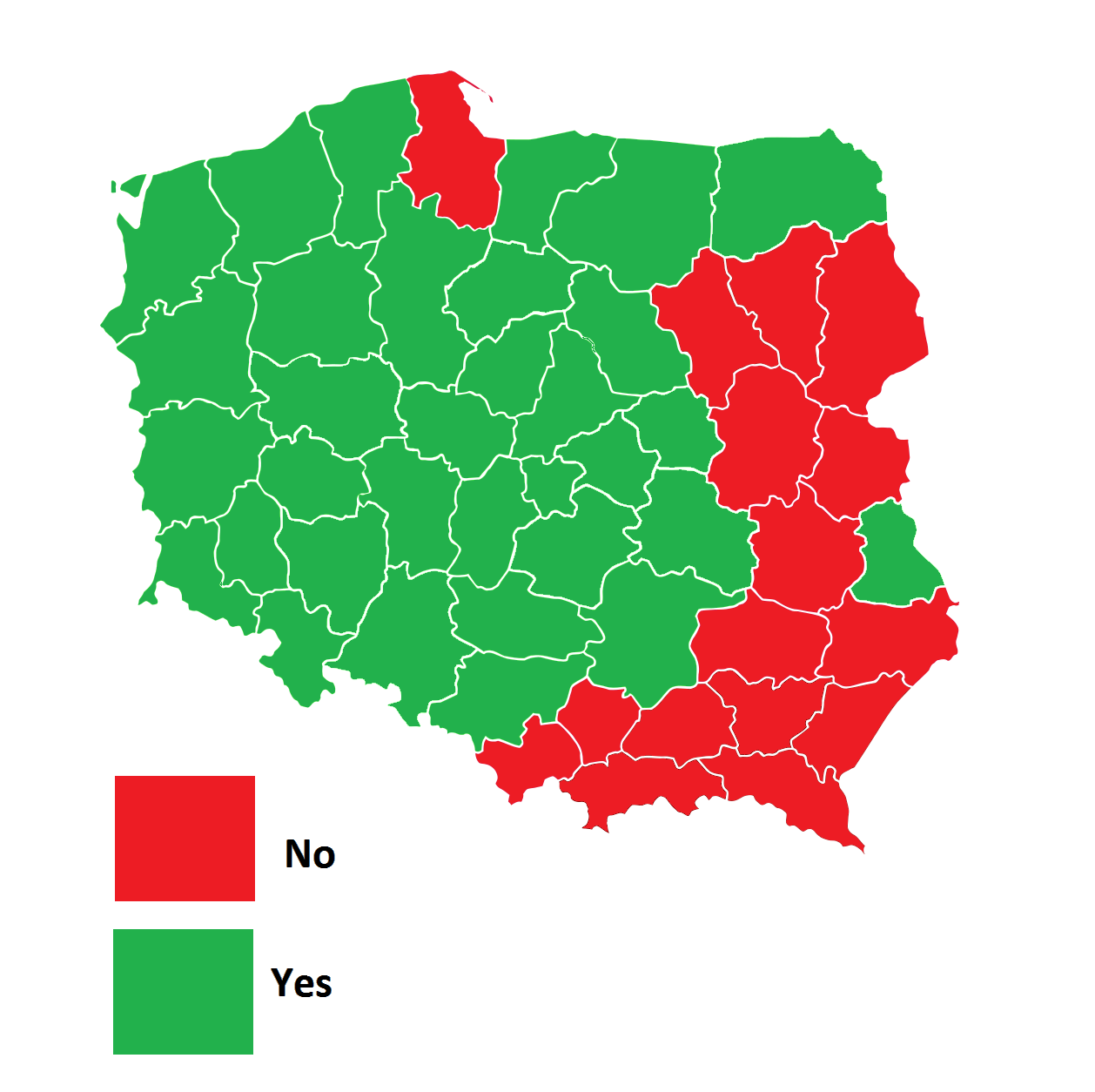 Polish referendum results by voivodeships, 1997